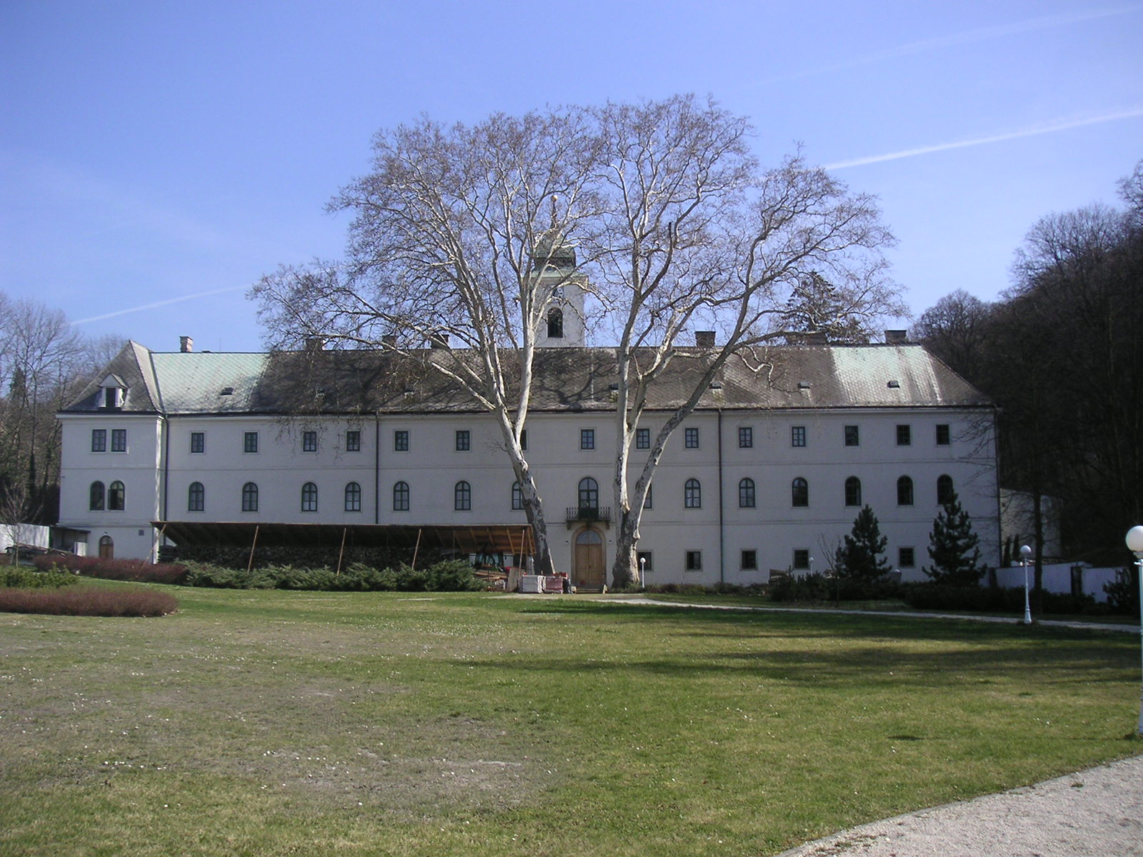 Monastery at Marianka, Slovakia This medium shows the protected monument with the number 106-454/1 in the Slovak Republic.